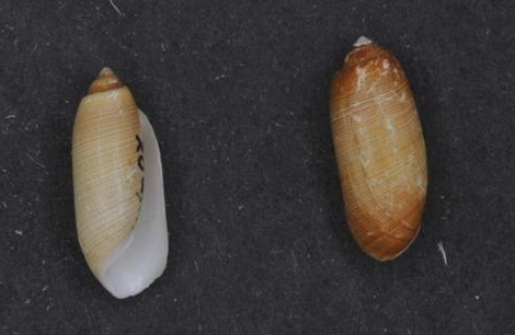 Cropped image of taxon in file name